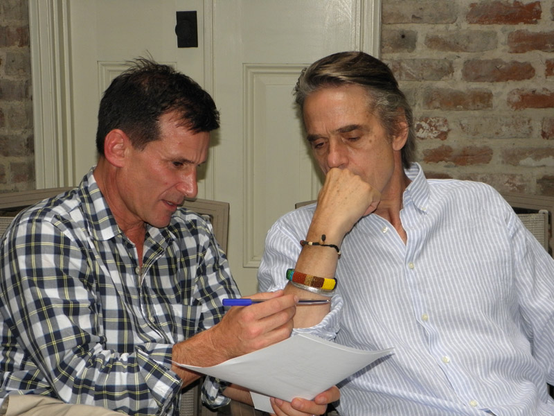 Jeremy Irons with Andrew Lauer